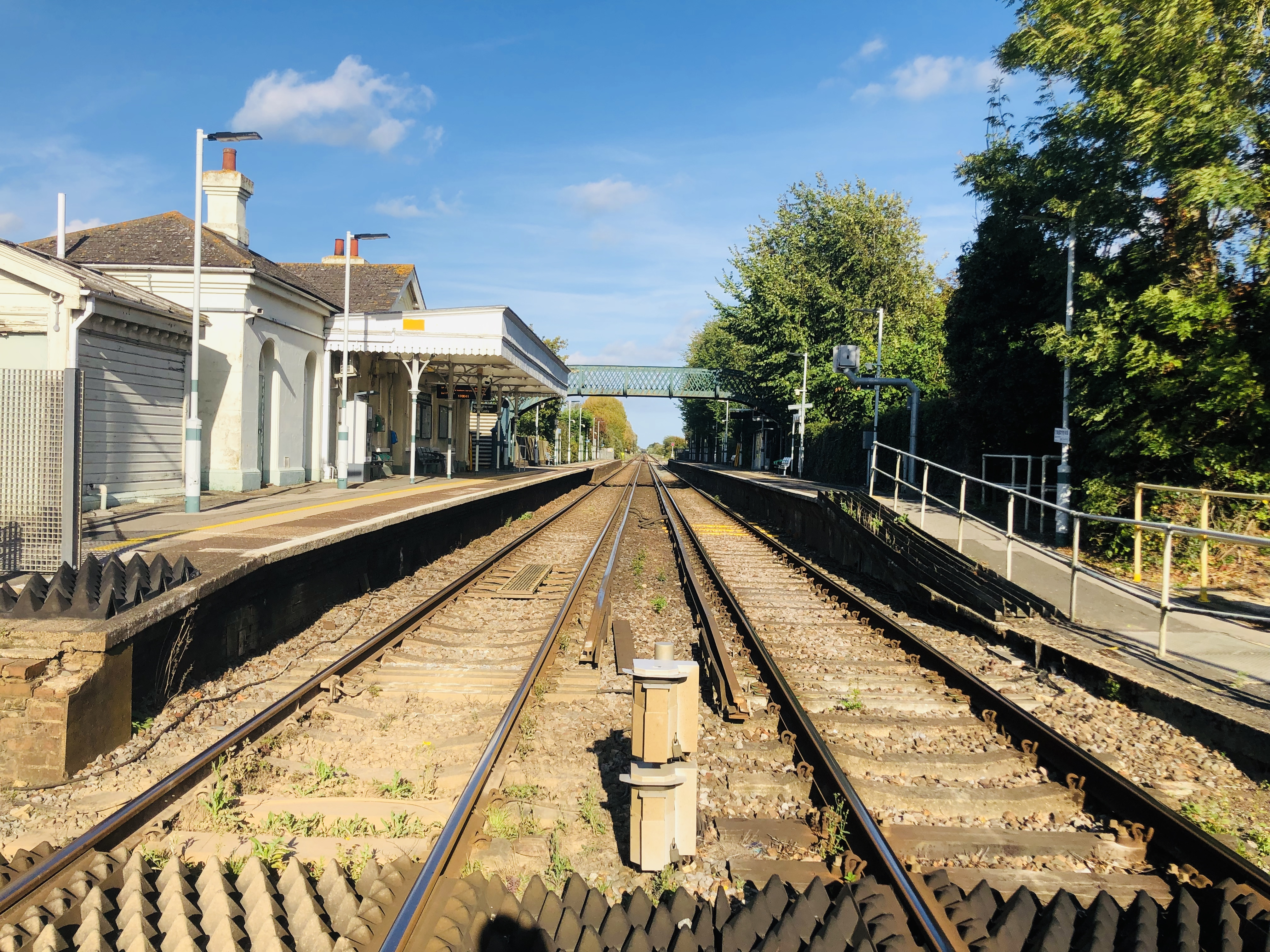 The platforms at Pevensey & Westham railway station, looking east towards Bexhill and Hastings. Picture taken from the nearby level crossing.